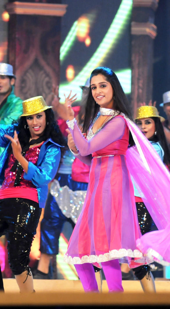 colors indian telly awards